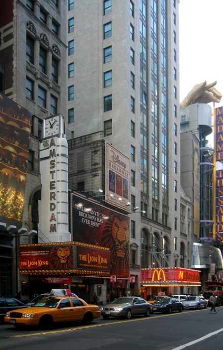 New York City, New York, USA: New Amsterdam Theatre (showing "The Lion King"). Location: Manhattan, 214 West 42nd Street / 207-19 West 41st Street Built 1903 by Herts & Tallant for Klaw and Erlanger. Opened 26 Oct 1903 with Shakespeare's "A Midsummer Nights Dream". Home to the "Ziegfeld Follies" from 1913 until 1927. In the 1940s converted to a cinema. 1994-1997 renovation for Walt Disney Co. Re-opened May 1997 with a concert performance of "King David". From 1997, used for the musical, "The Lion King". 1771 seats.